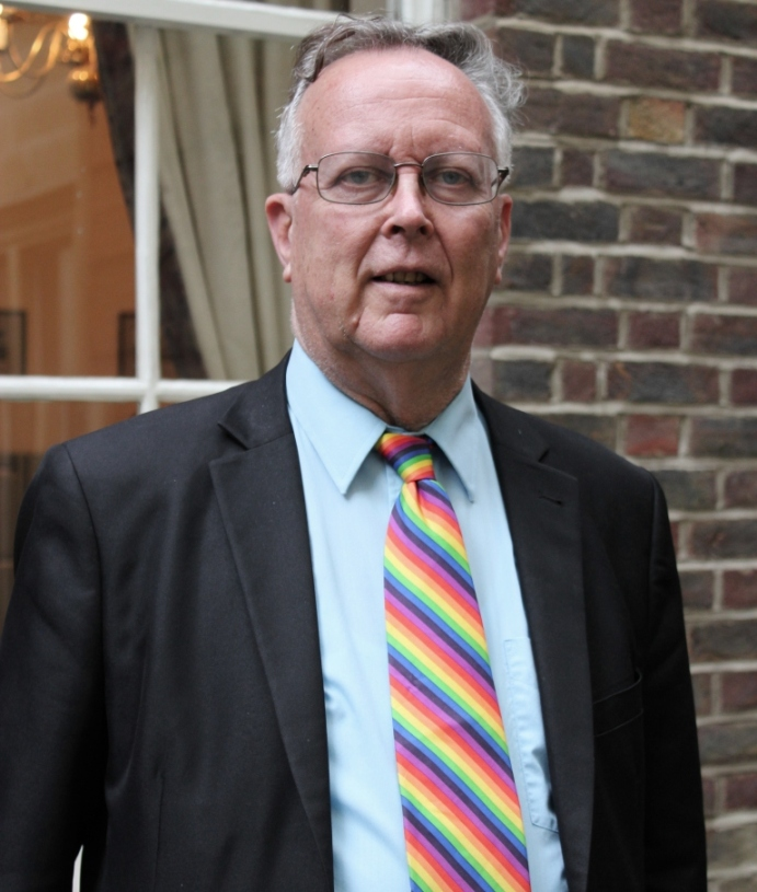 Professor Robin Wilson in the courtyard of Gresham College, June 2011.